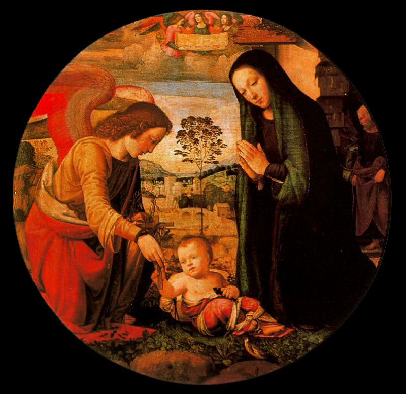 Adoration of the Child